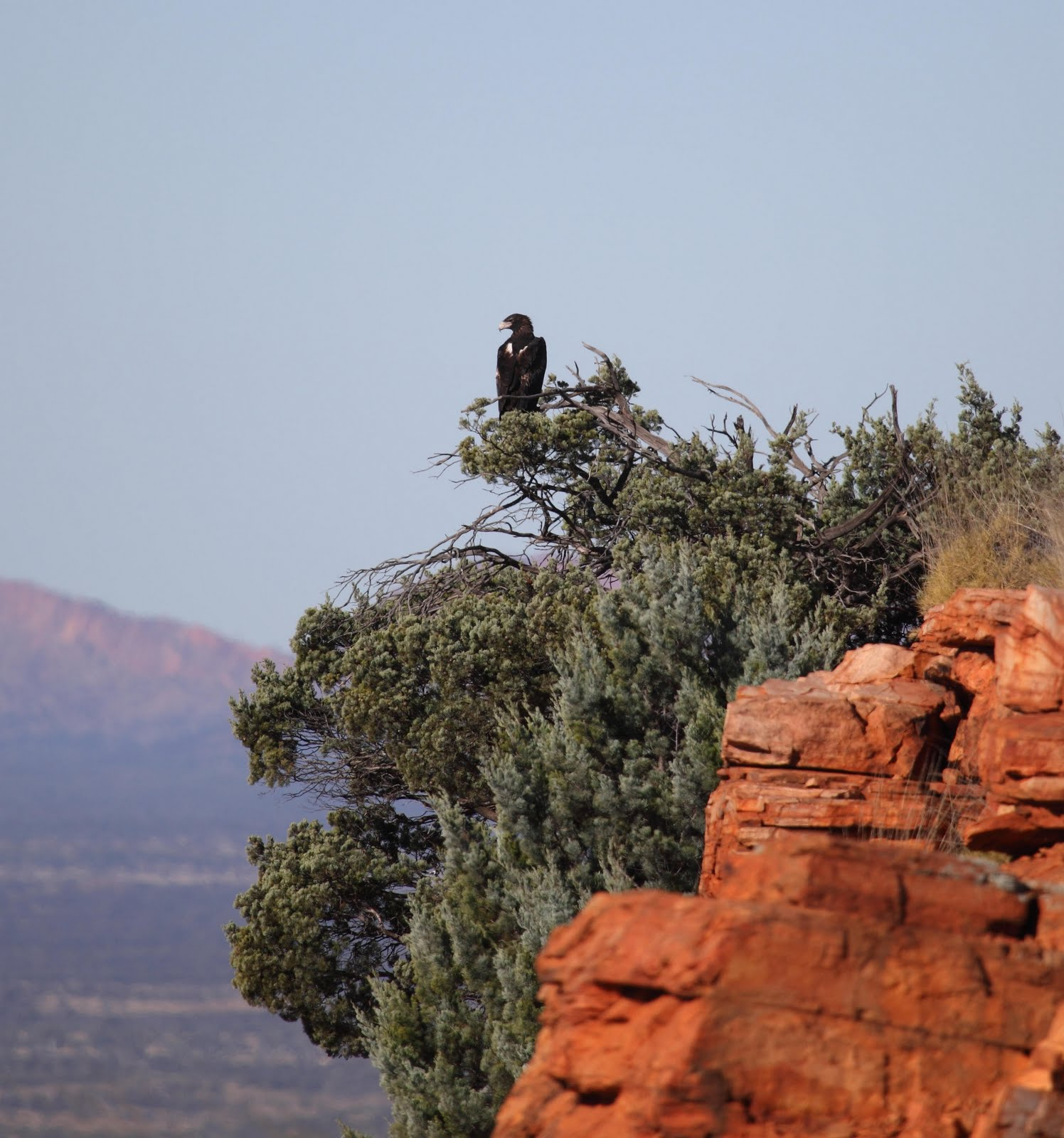 Wedge-tailed Eagle (Aquila audax), Northern Territory, Australia